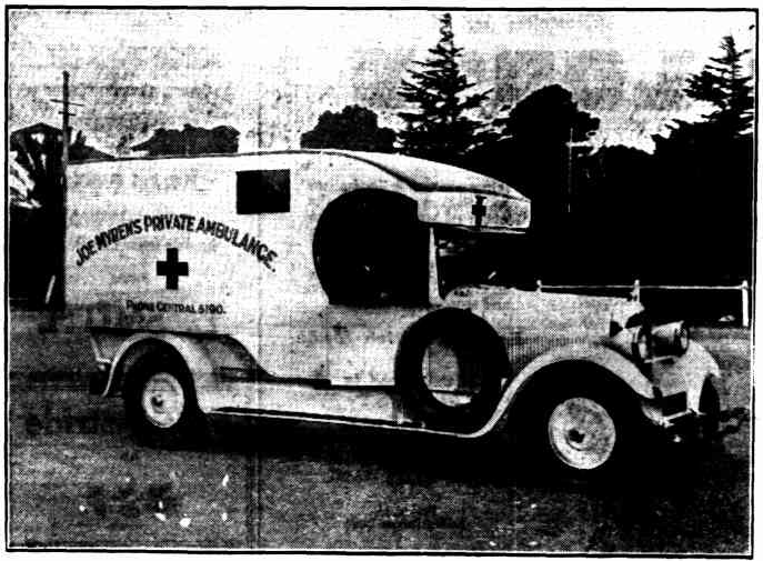 Studebaker Ambulance with text on side JOE MYRENS PRIVATE AMBULANCE. PHONE CENTRAL 5190